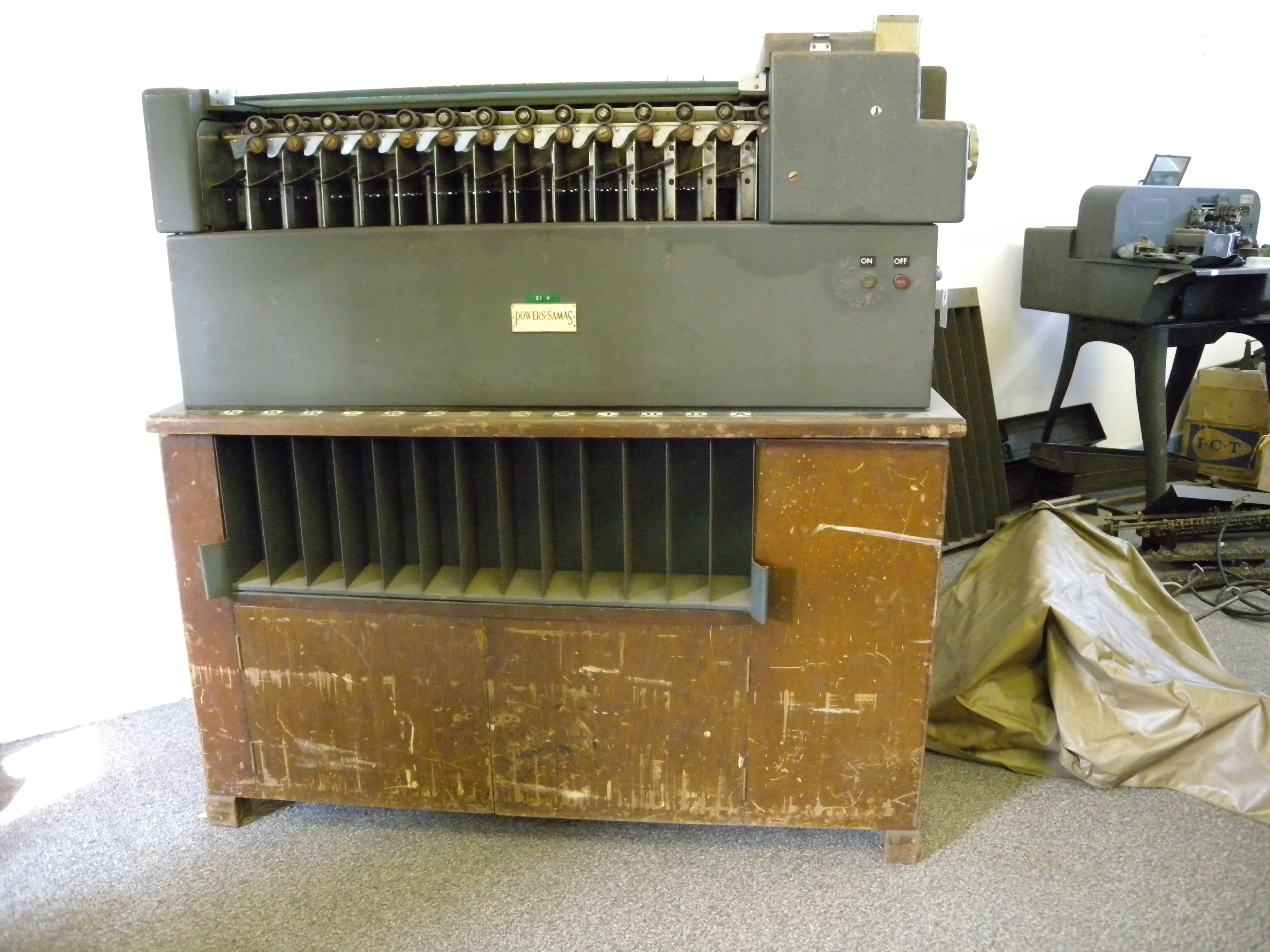 A Powers Samas punched card collator/sorter of some type that could actually be from the 1940s judging by archive footage I've seen in the past.